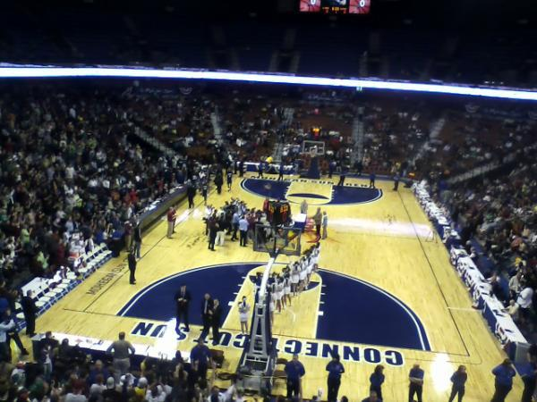 Mohegan Sun Arena after the 2012 CT class LL state championship basketball game